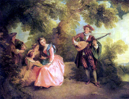 The Serenade